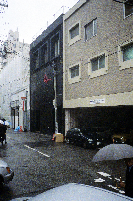 AndA a OSAKA